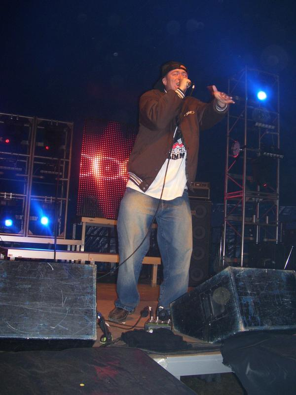 Morlockk Dilemma at Splash 2008.